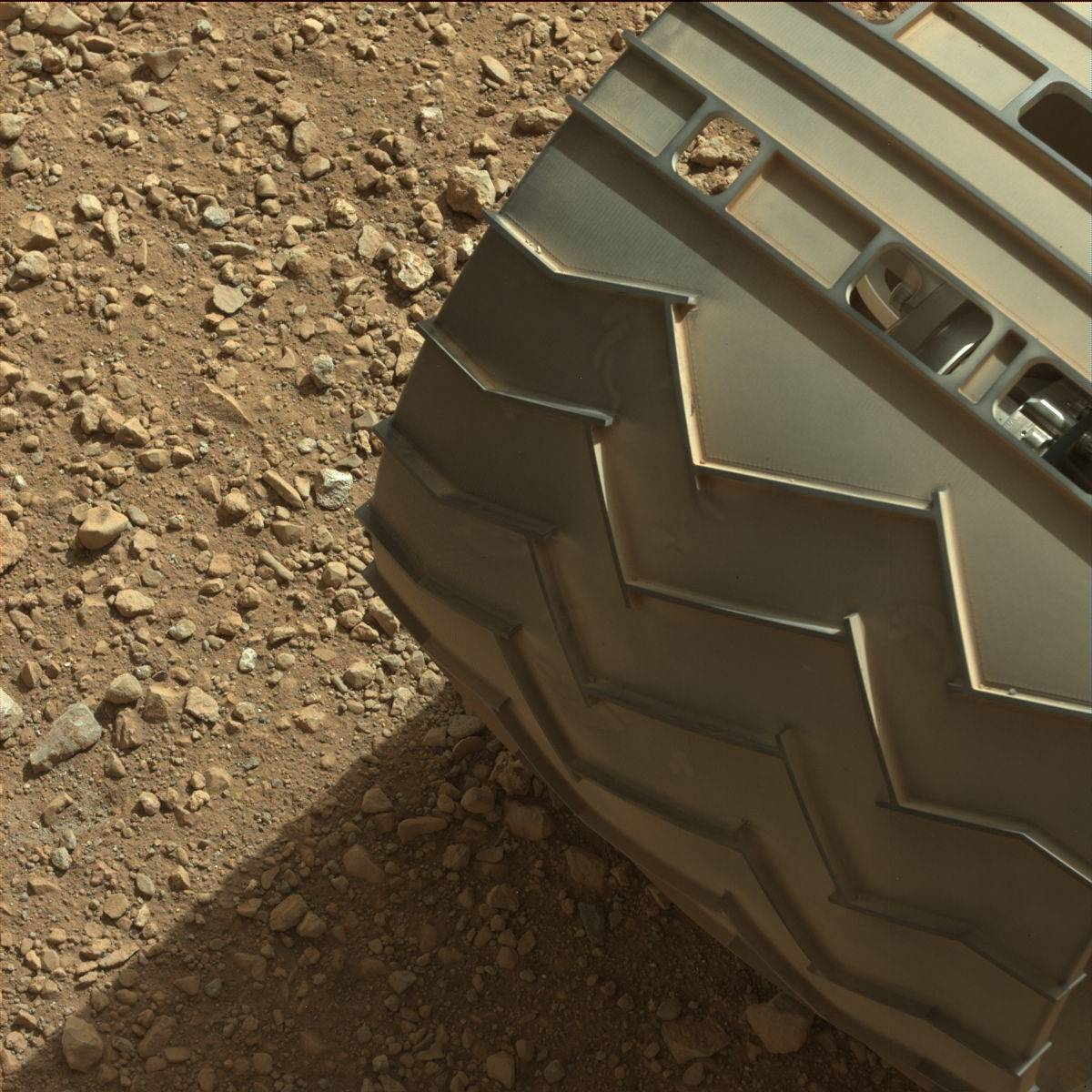 This image was taken by Mastcam: Left (MAST_LEFT) onboard NASA's Mars rover Curiosity on Sol 3 (1947-08-09 06:01:57 UTC) .